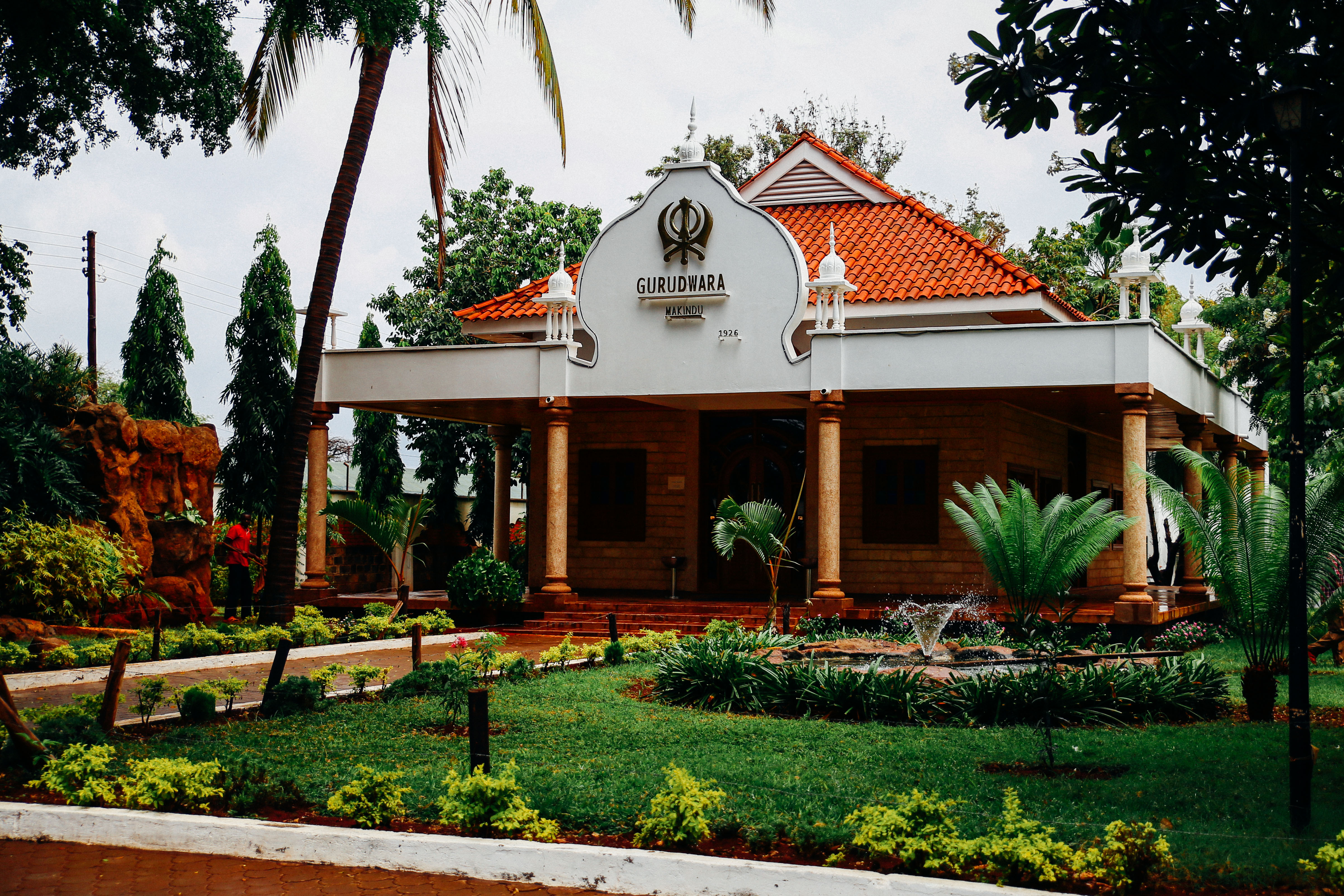 The refurbished original building at Makindu